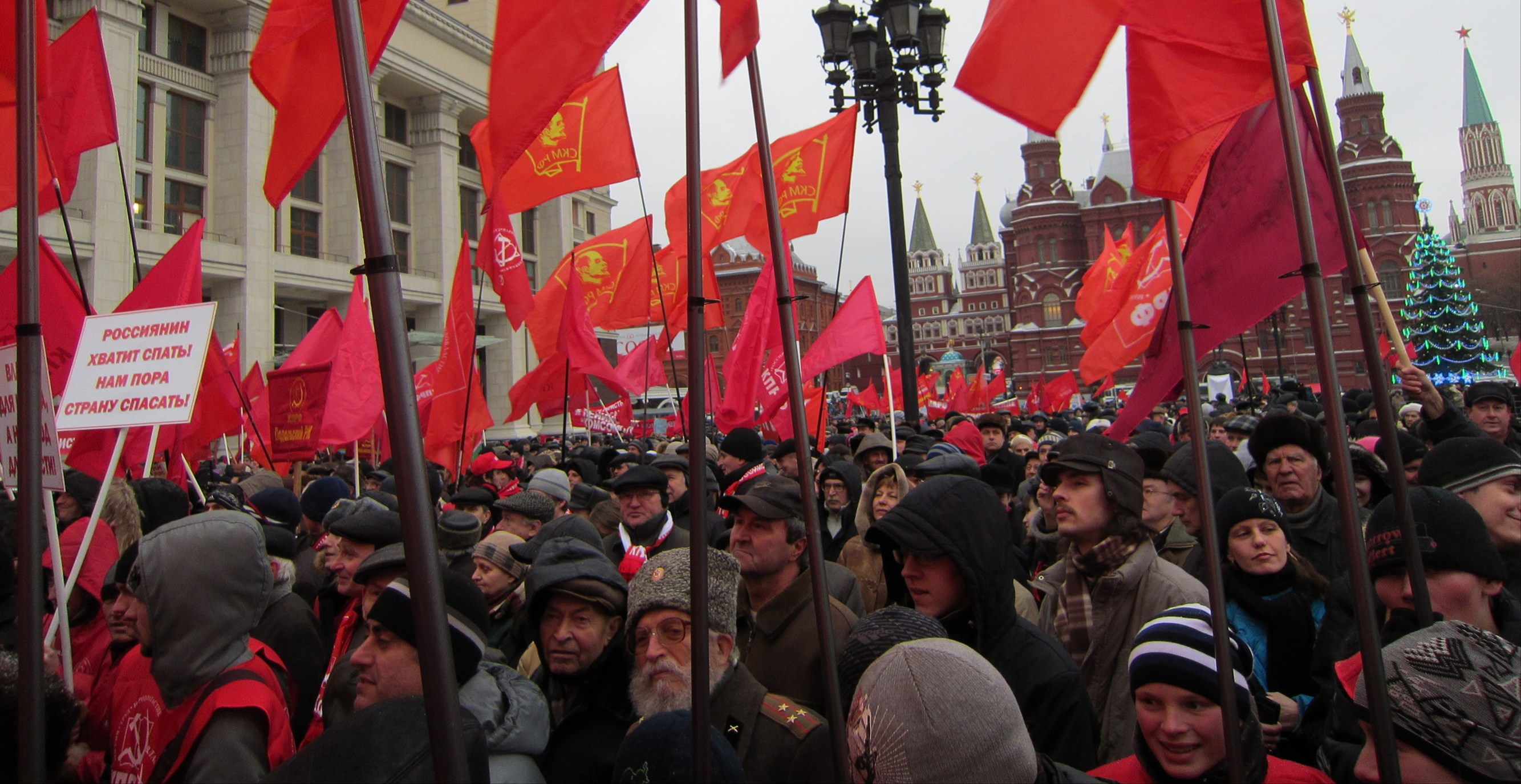 Communist Party of the Russian Federation meeting at Manezhnaya Square, Moscow, 2011-12-18